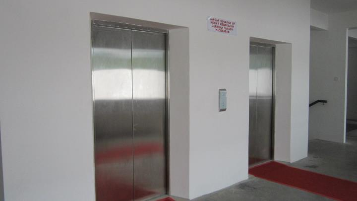 Schindler Elevators in Bangunan Wawasan Heng Ee